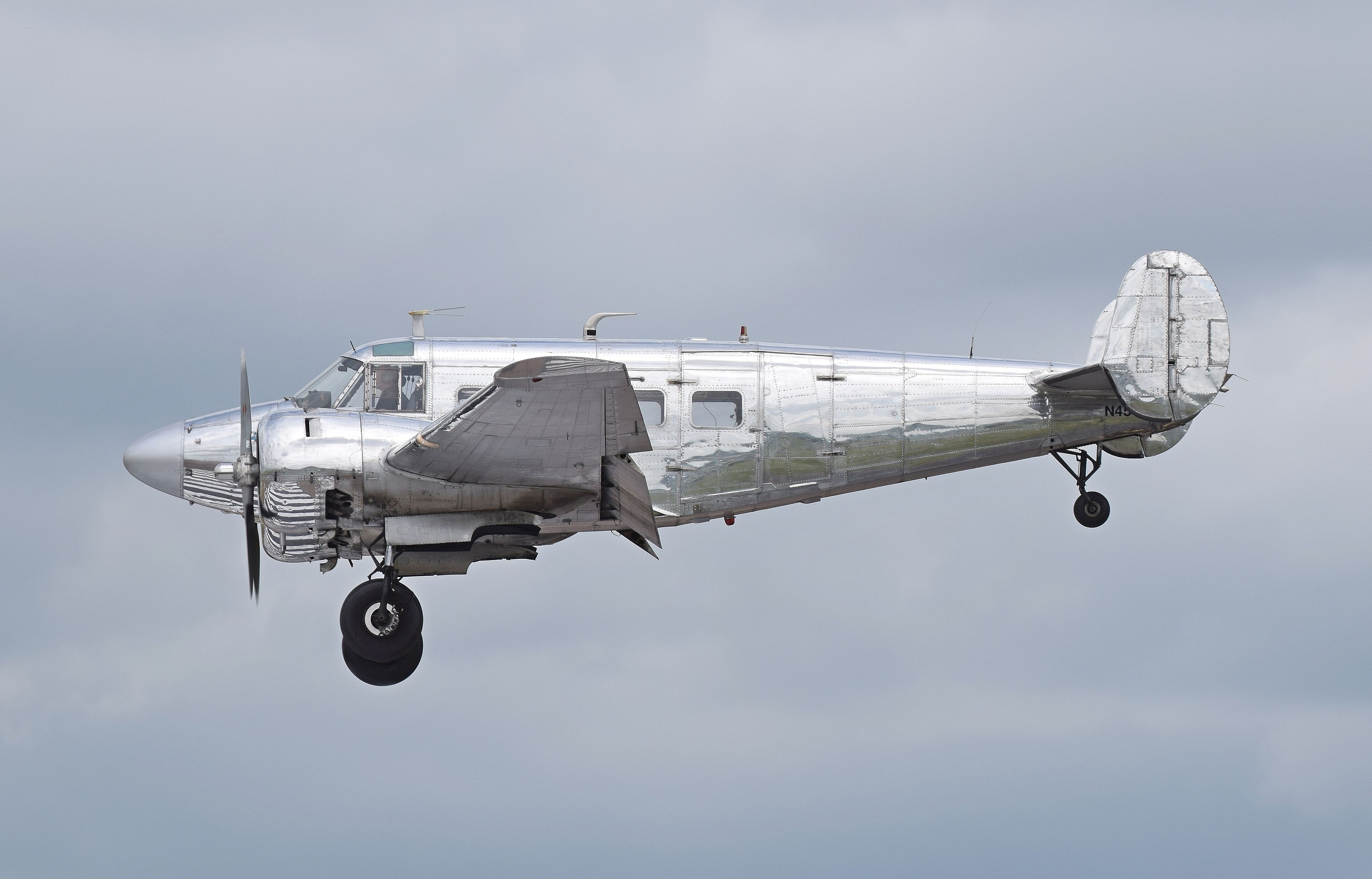 Beech Model 18 (reg N45CF) arrives at the 2016 Royal International Air Tattoo, RAF Fairford, England. Built 1959.